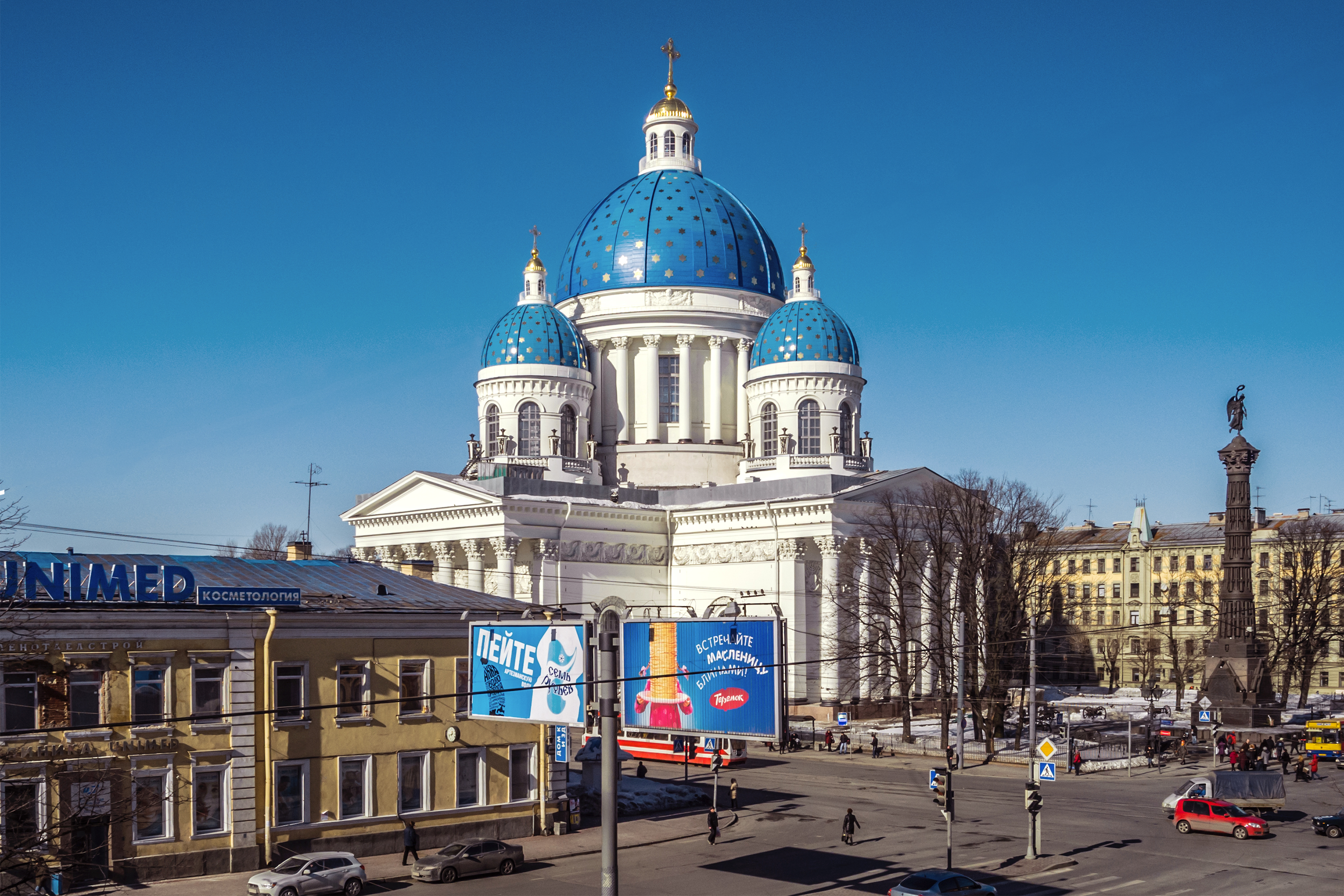 The Trinity Cathedral in Saint Petersburg.